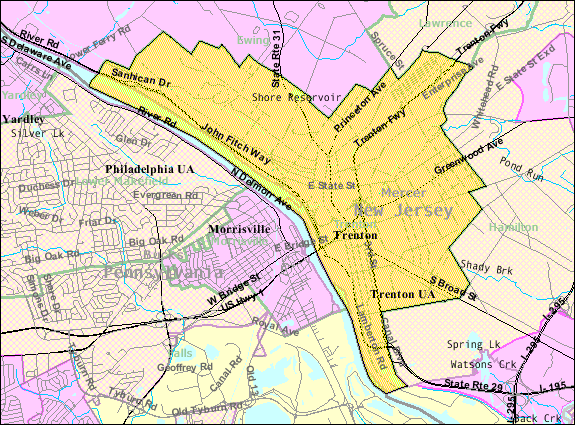 Census Bureau map of Trenton